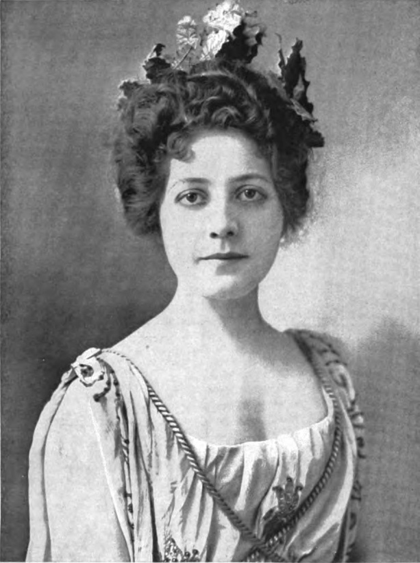 Photograph of stage actress Olive May in the role of Lady Mollie Fanshawe in The White Heather.